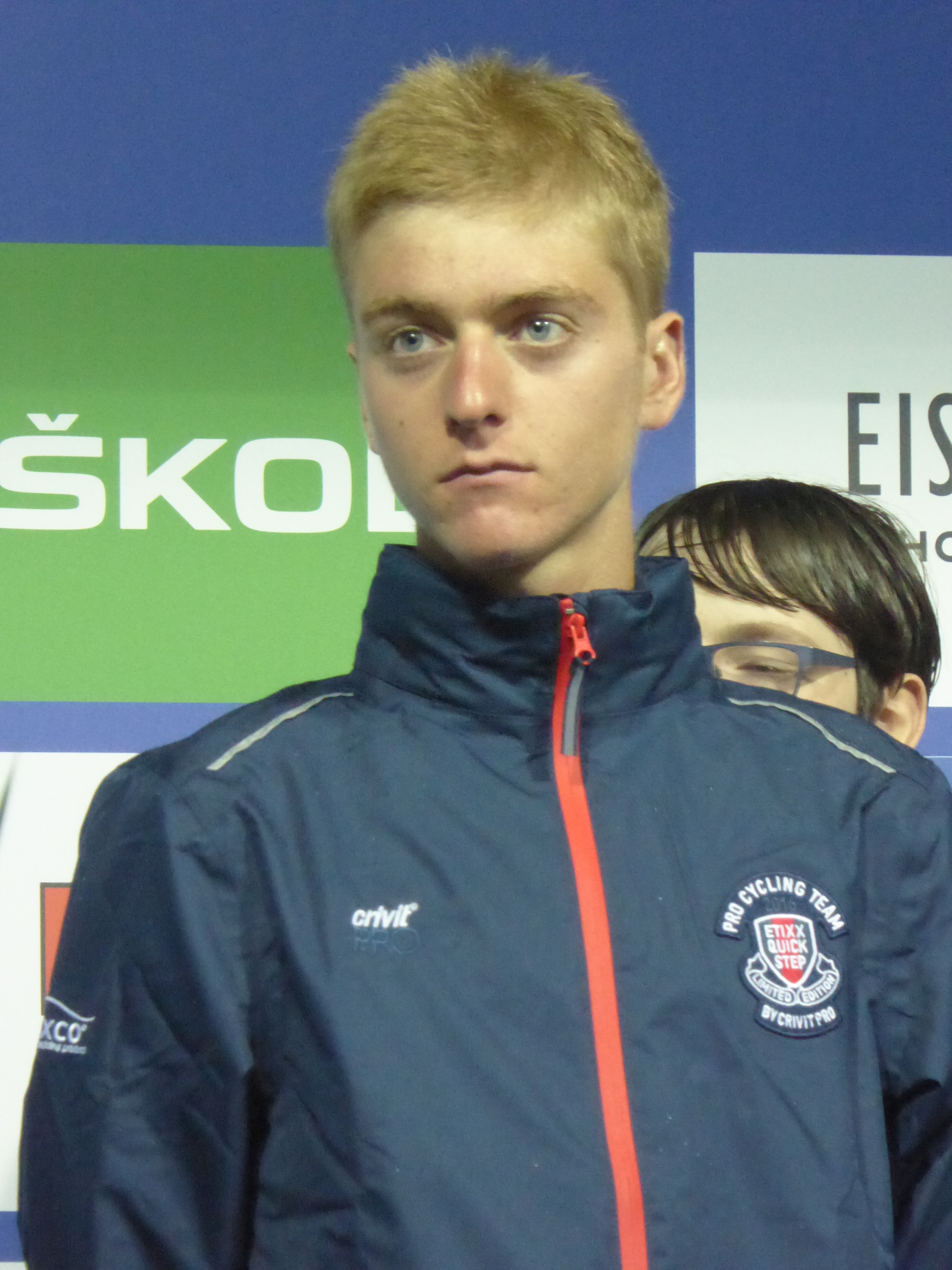 Adrien Costa (Etixx-Quick Step stagiaire), pictured at the 2016 Tour of Britain team presentation in Glasgow on 3 September 2016.